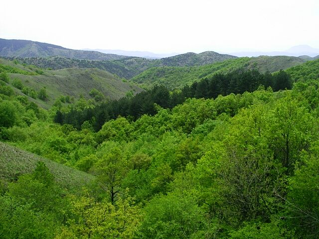 Serbian countryside near the Ravna Gora mountain